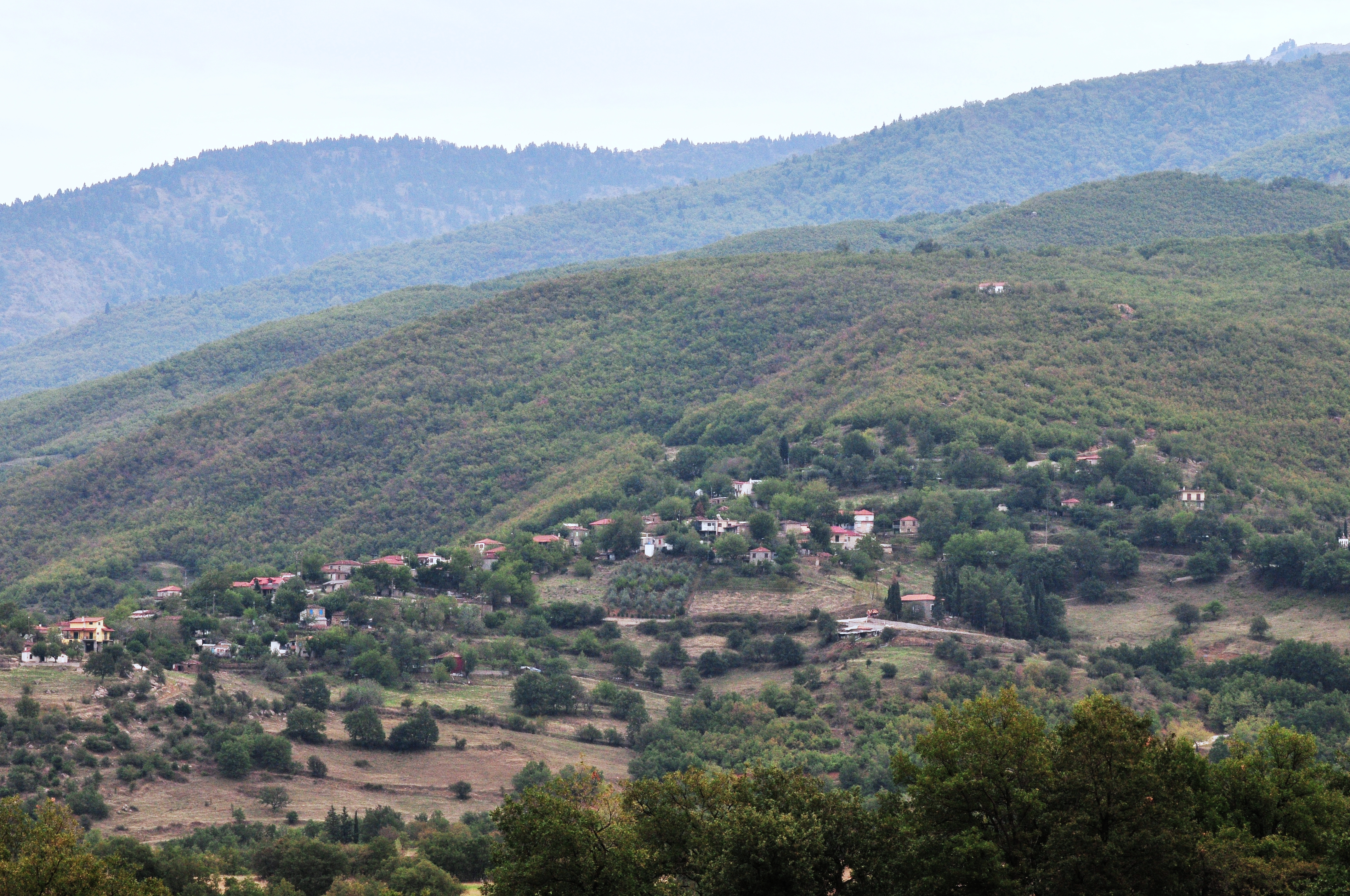 Kato Kampia, village in Fthiotida, Greece